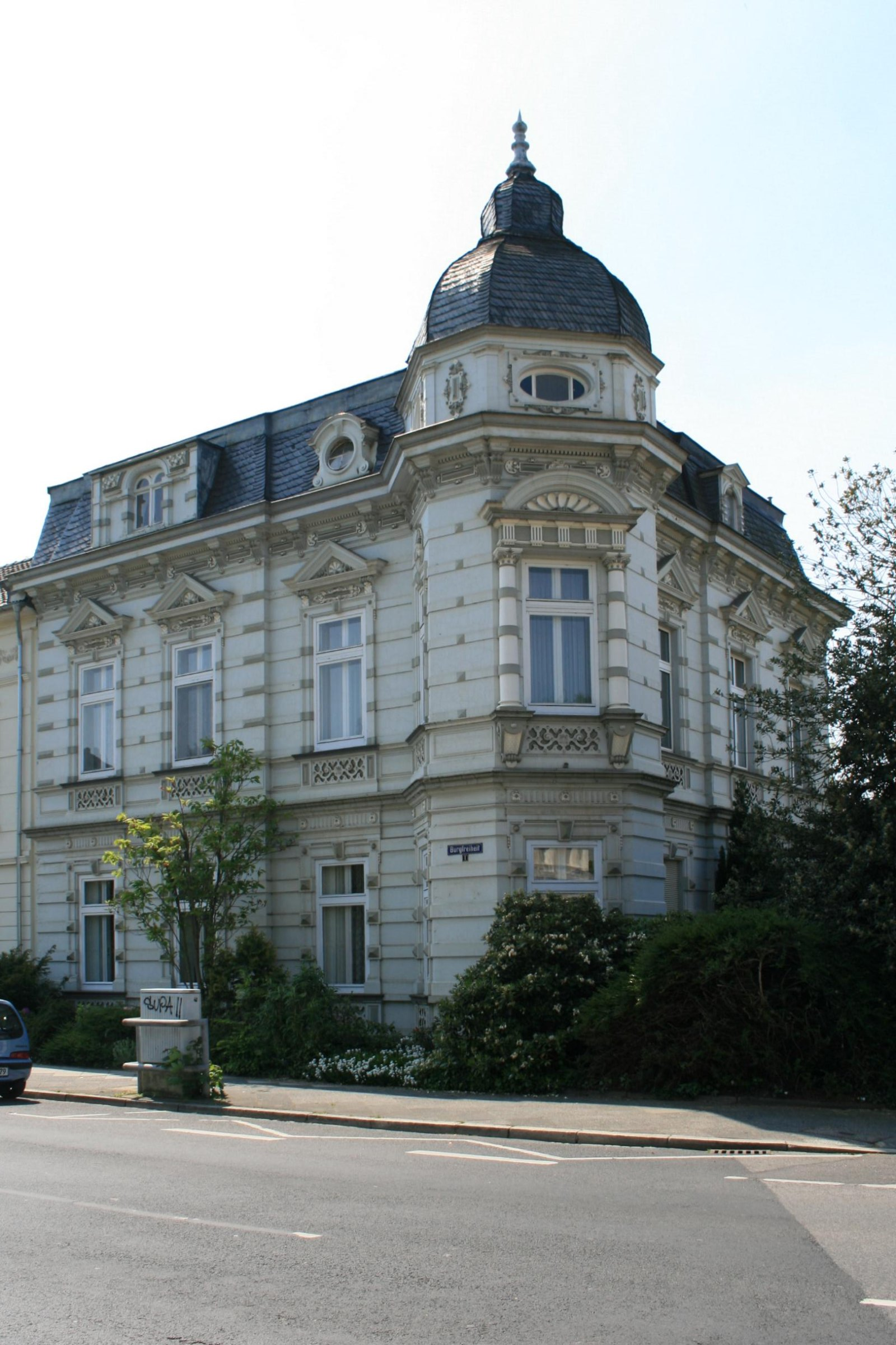 Cultural heritage monument No. B 132 in Mönchengladbach